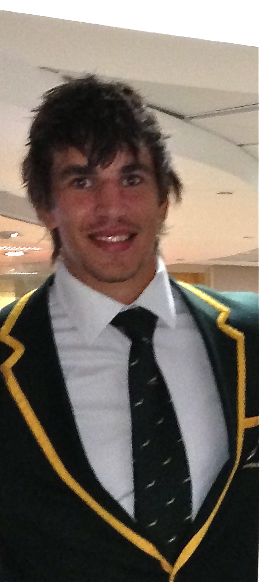 South African Rugby Union player Eben Etzebeth